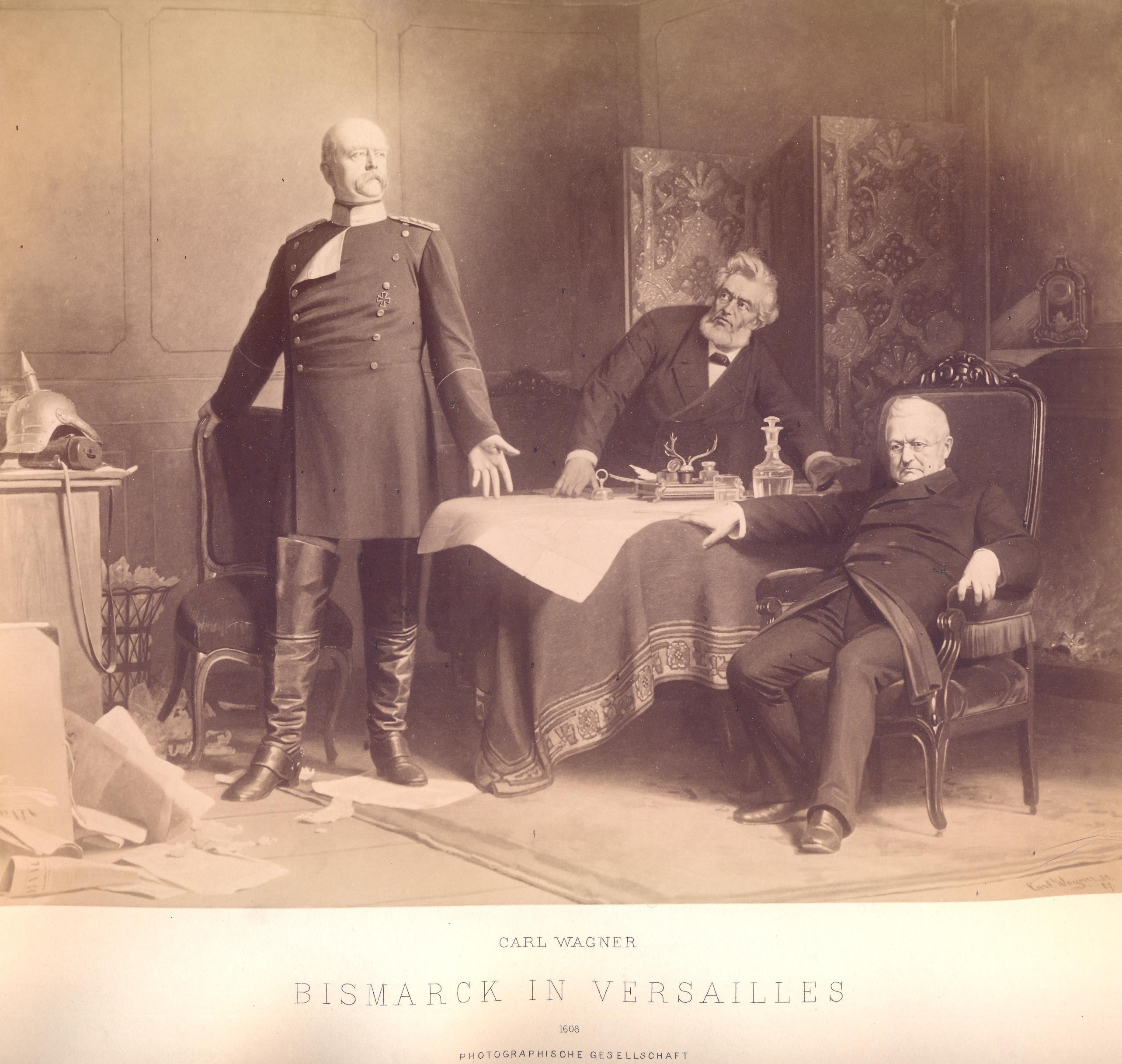 Otto von Bismark in Versailles, pictured in an anniversary album on his 80th birthday, Berlin, 1895